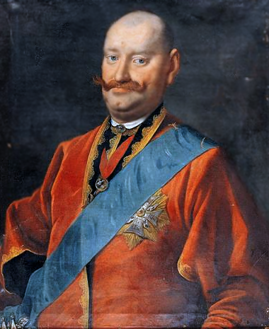 Portrait of Karol Stanisław "Panie Kochanku" Radziwiłł (1734-1790)